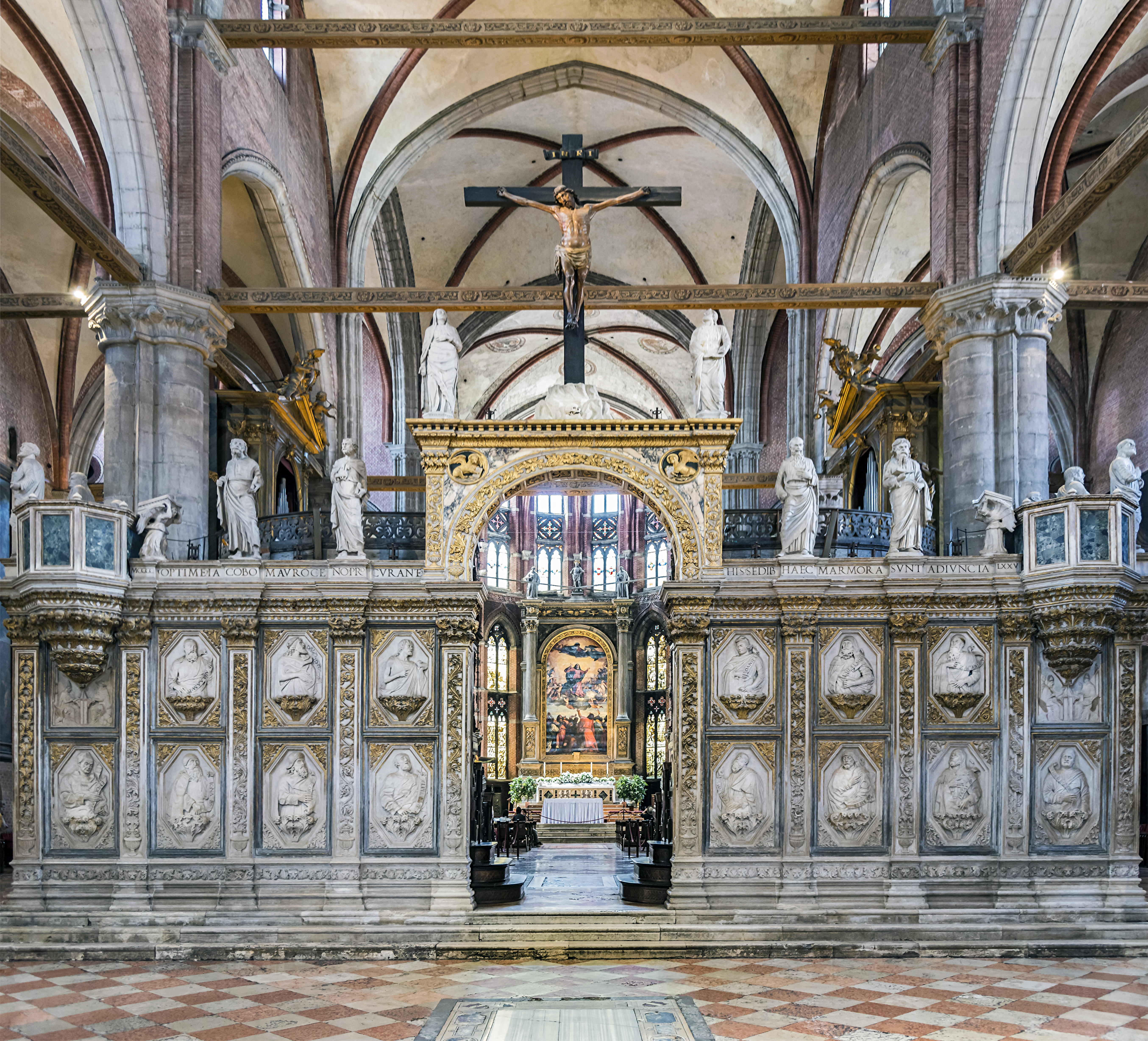 The Basilica di Santa Maria Gloriosa dei Frari. The entrance in Istrian stone to the choir of the brothers. 1475 work from the workshop of Pietro Lombardo. In frames, bas-reliefs, representing Patriarchs and Prophets of the Old Testament. The last frame on the bottom right is the sponsor, Giacomo Morosini. On the top, eight statues of apostles by Vittore Gambello, also called Camelio. He is credited with the statues of the Virgin and St. John on either side of the crucifix. The crucifix is attributed to Andrea del Verrocchio.